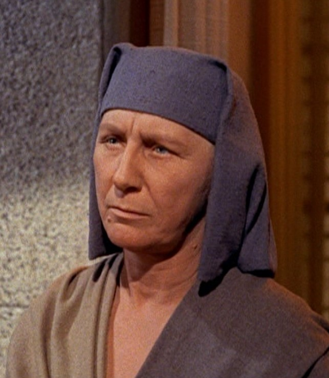 Cropped screenshot of Judith Anderson from the trailer for the film The Ten Commandments.